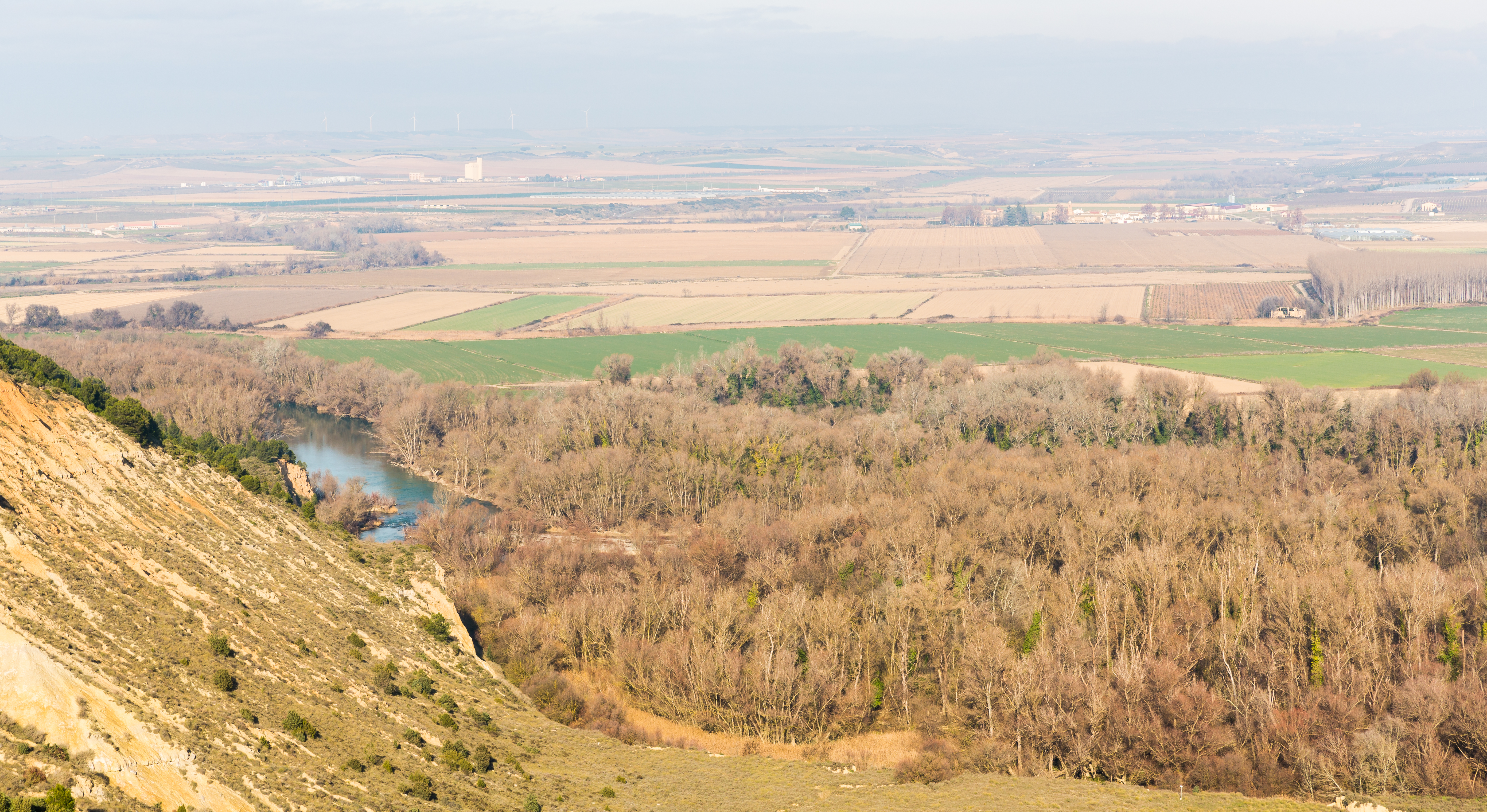 Outlook of Mélida, SCI Tramos Bajos del Aragón y del Arga, Navarre, Spain